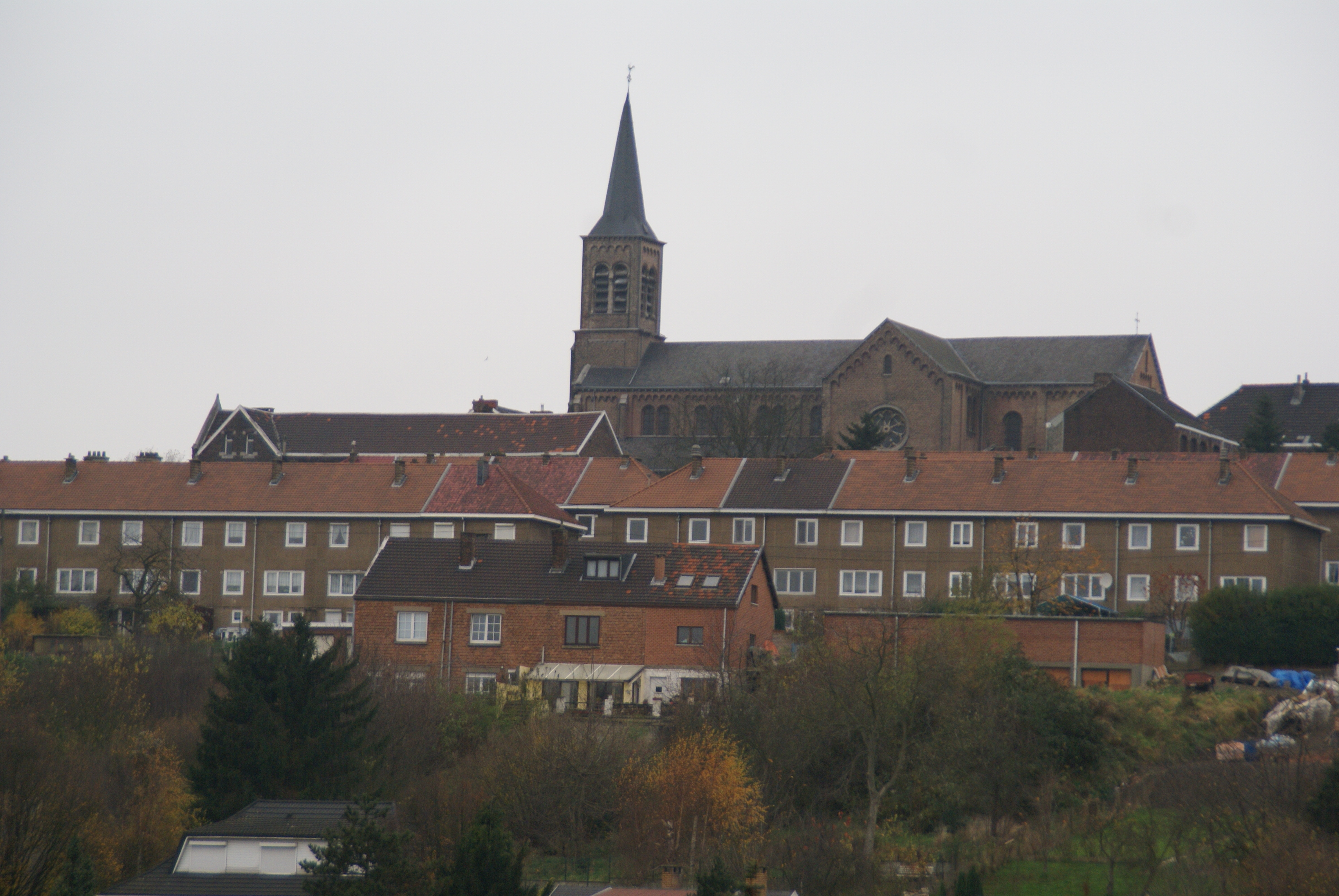 Saint-Nicolas (Liège) (Belgium): Panorama